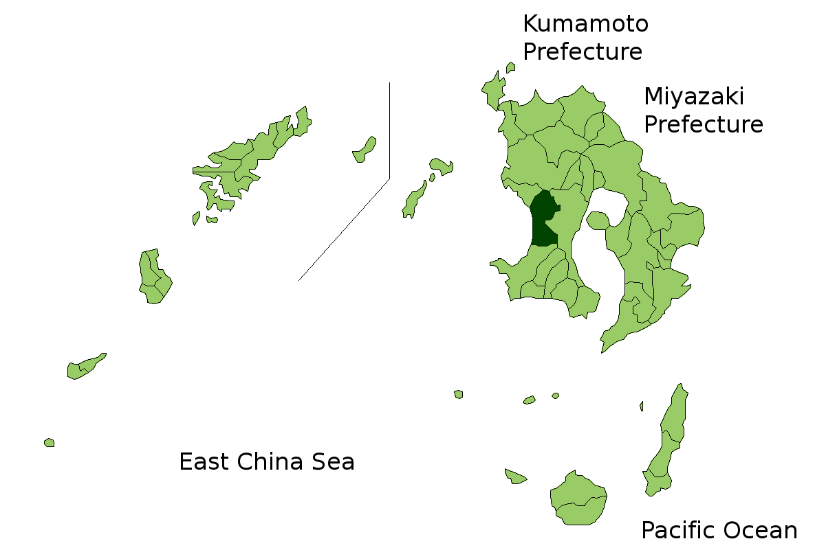 Map of Kagoshima Prefecture highlighting Hioki city. Borders of map as of July, 2006. (blank map used from [1]) See also Image:KagoshimaMapCurrent.png.